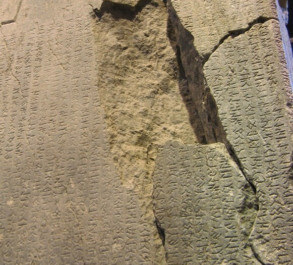 Monument to Kul Tegin, Orkhon valley, Mongolia